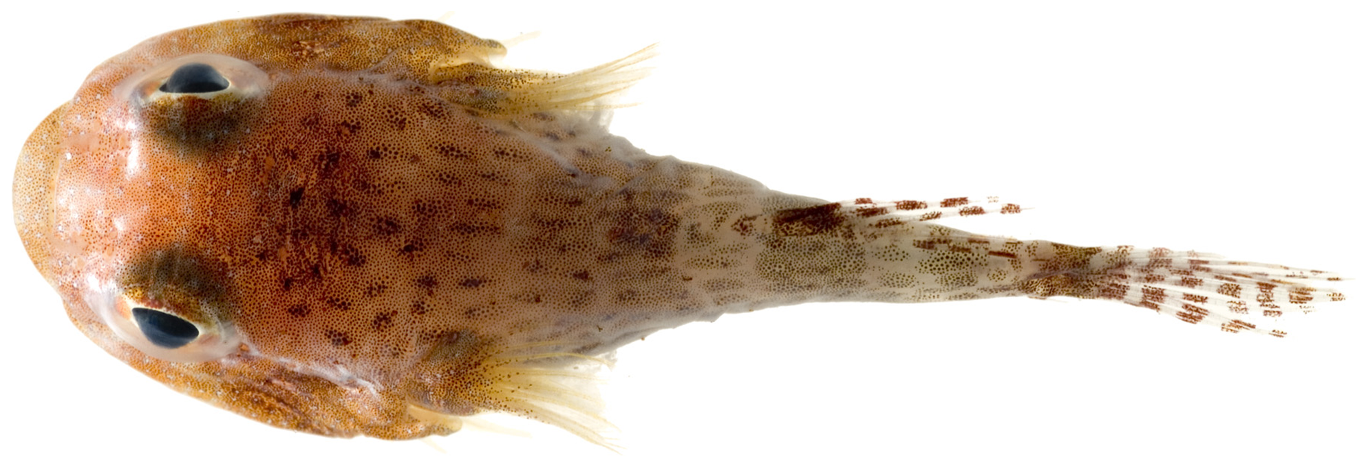 Acyrtus artius Briggs, 1955—papillate clingfish, 20.4 mm SL, dorsal view. Photo by JT Williams.